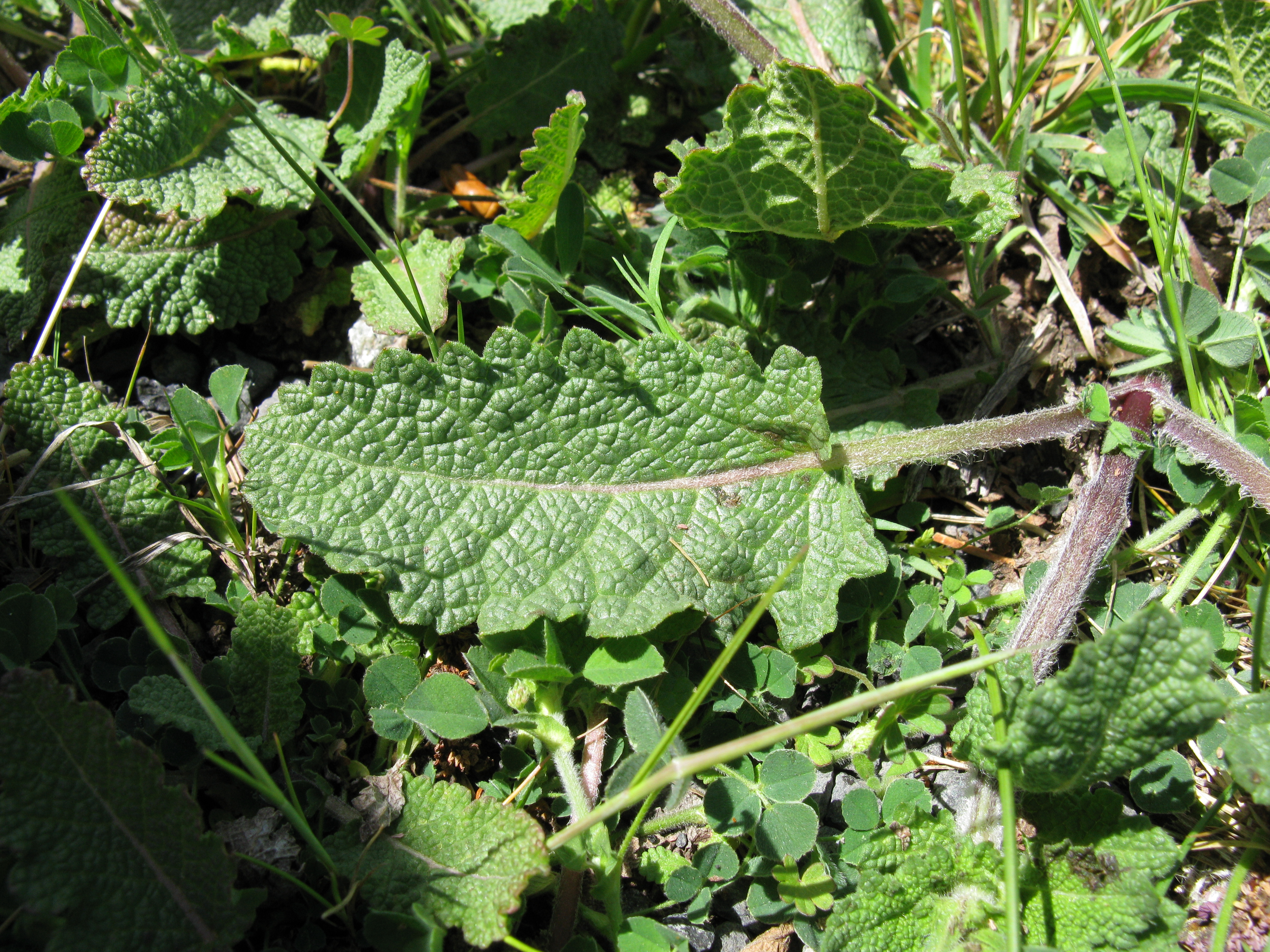 Introduced, cool season to yearlong green, perennial, aromatic herb to 70 cm tall (usually less than 50 cm). It initially form a basal rosette of leaves and eventually produces upright stems from a tough underground rootstock. Stems are hairy and four-angled; hairs on the upper parts of stems are often sticky. Leaves are paired, 2.5-10 cm long and variable in shape; with irregularly toothed to lobed or deeply-divided margins. Flowerheads are thyrse-like, once-branched basally, with groups of 6–10 flowers per pair of bracts. Flowers are purple, blue, or pink flowers, almost stalkless, tubular and separating into two lobes near their tips. Flowering is mostly in spring, but also in autumn. A native of northern Africa, western and southern Europe and western Asia, it is a weed of pastures, grasslands, woodlands, open forests, lawns, parks, footpaths, roadsides and other disturbed areas. It is regarded as an environmental weed.